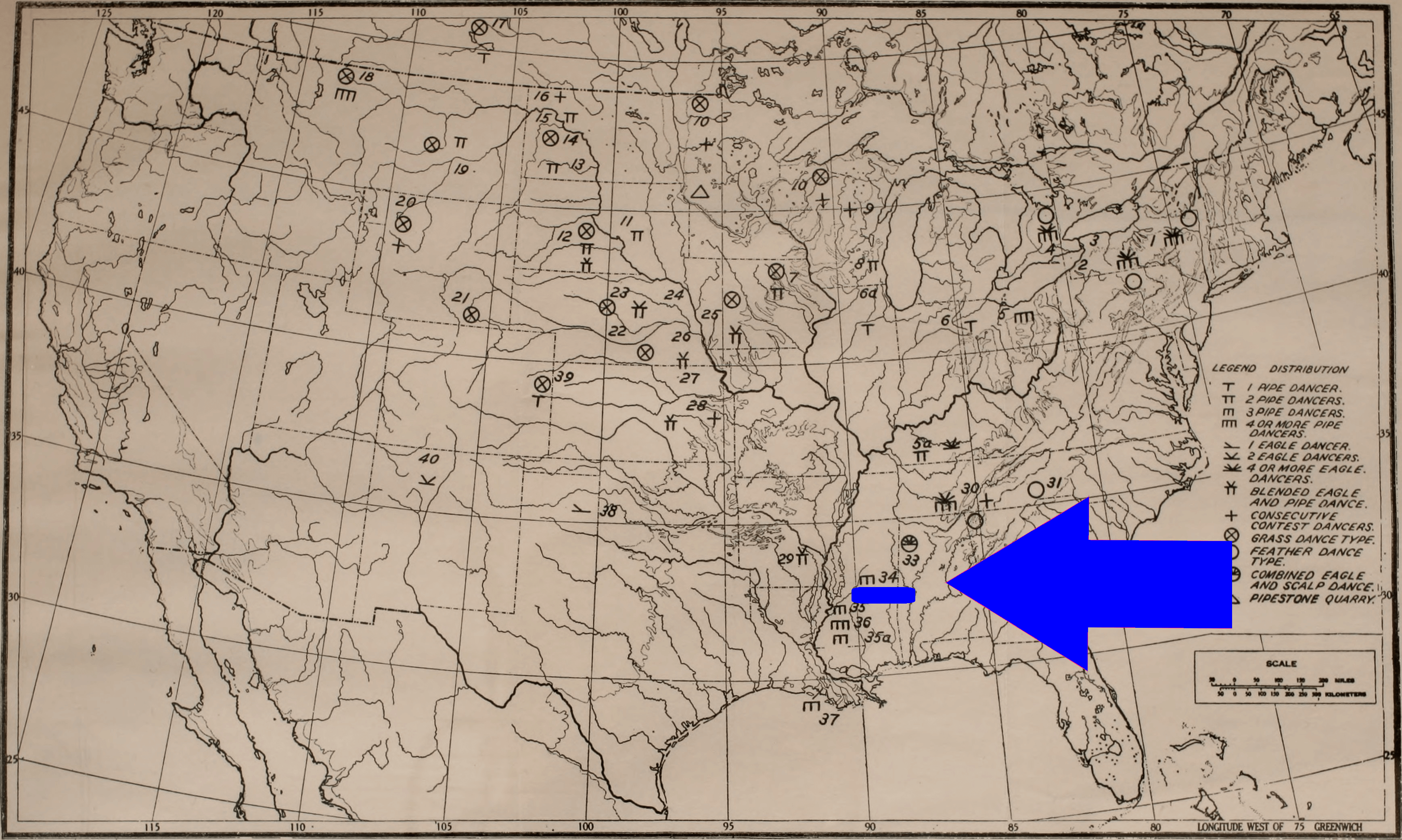 Title: Bulletin Year: 1901 (1900s) Authors: Smithsonian Institution. Bureau of American Ethnology Subjects: Ethnology Publisher: Washington : G. P. O. Text Appearing Before Image: ' Text Appearing After Image: Prepared by J. Paul Goode. Publiihed by The Univenity of Chicago Press. Chicago, Dl. Copyright 1920, by the Univenity ol Chicago Figure 30.—Map of distribution. Numbers indicate location of tribes in the middle of the 19th century: 1. Onondaga near Syracuse 68, Illinois—1673 2. Coldspring and Cattaraugus Seneca 7, Meskwakl (Fox) 3. Tonawanda Seneca 8. Winnebago 4. Iroquois of Six Nations Reserve 9. Menominee 5. Seneca and Shawnee Joint loca- 10. Chippewa tions in 18th century 11. ^'ankton Dakota 5a. Shawnee 12. Teton Dakota 0. Miami—1670-1750 13. Arikara 14. Hidatsa 15. Mandan 16. .\sslniboine 17. Cree 18. Blackfoot 19. Crow 20. Shoshone 21. Cheyenne and Arapaho 22. Pawnee 23. Ponca 24. Omaha 25. Iowa 26. Oto 27. Kansa 29. Cahinnio (Caddo)—1687 30. Cherokee 31. Catawba 32. Creek 33. Choctaw 34. Koroa—1683 36. Taensa 3Sa. Houma 36. Natchez—1758 37. Chitimacba—1758 38. Comanche 38. Kiowa 40. Rio Qrande Pueblos 982308—63 (Face p. 288)